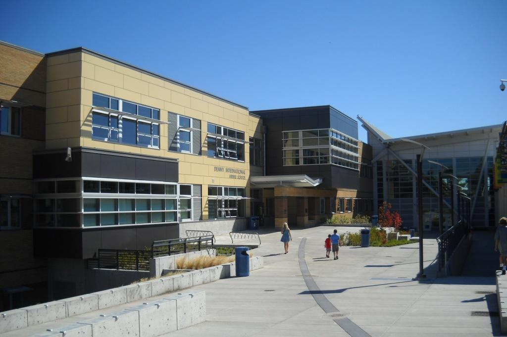 Entry courtyard to the new Denny International Middle School